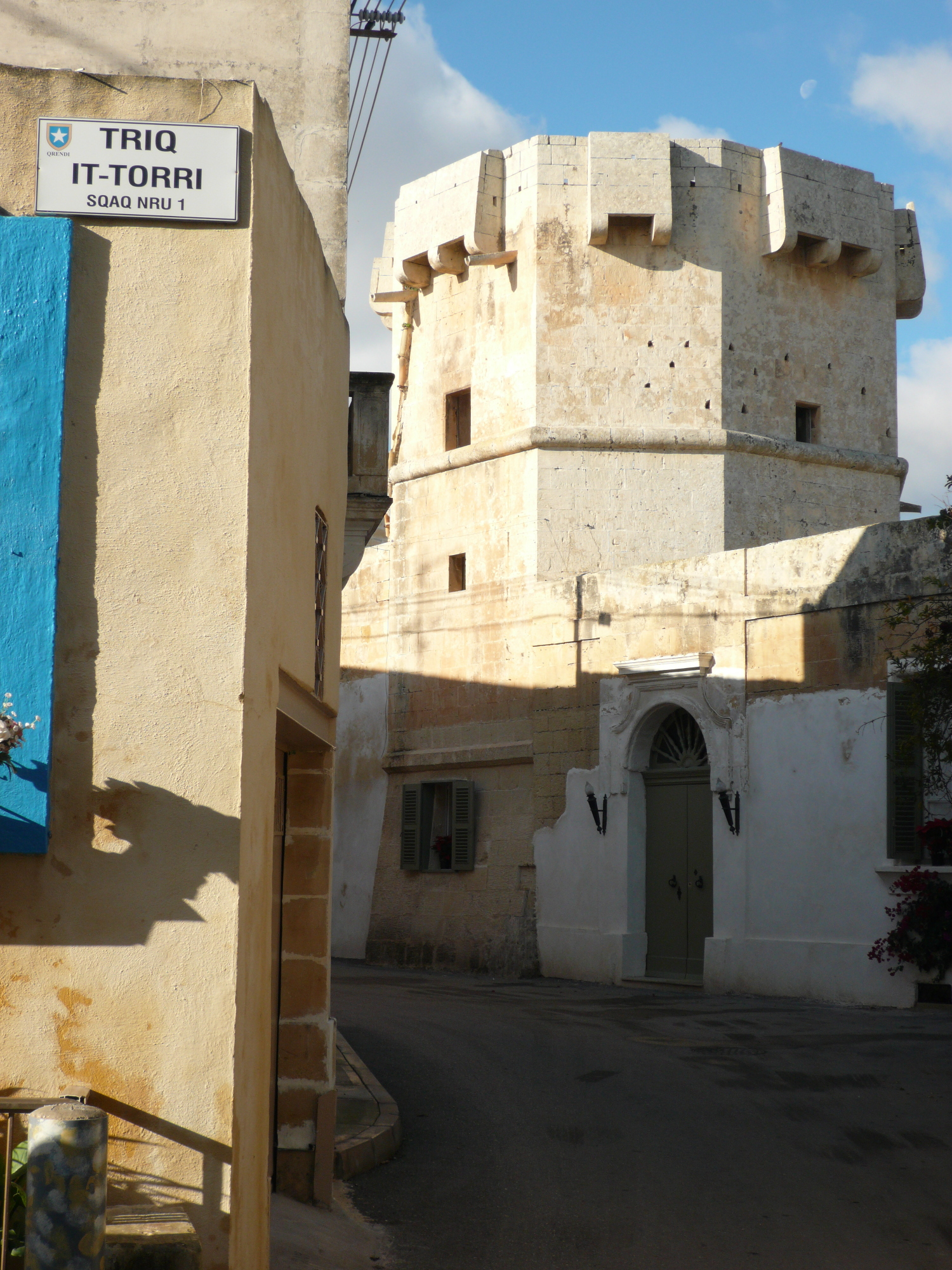 8-sided tower in the village of Qrendi, Malta